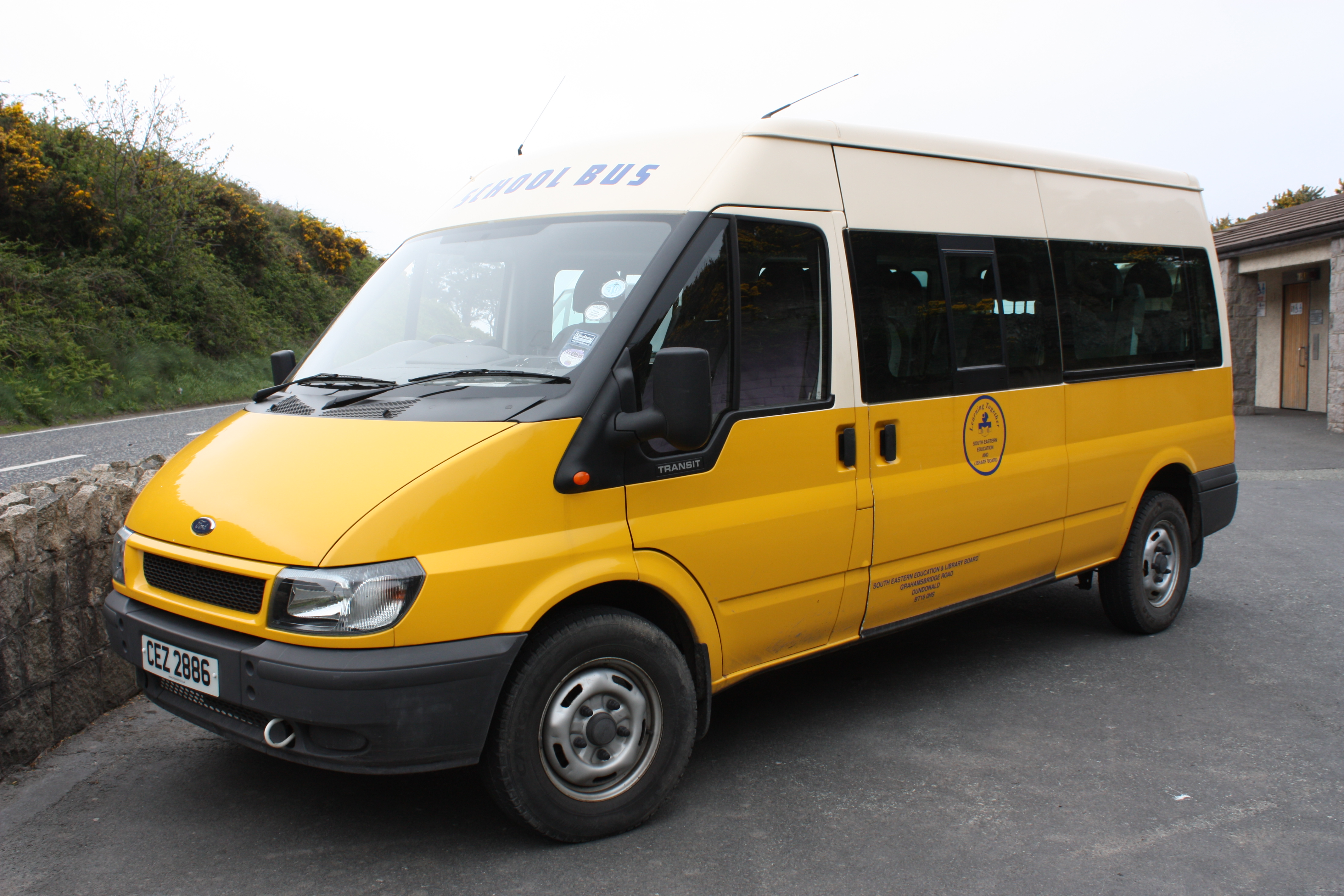 School bus in car park, Bloody Bridge, Kilkeel Road, Newcastle, County Down, Northern Ireland, May 2010